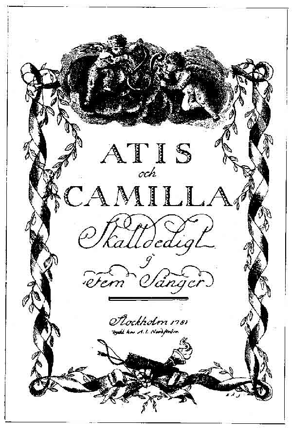 Atis och Camilla by Creutz. Title page